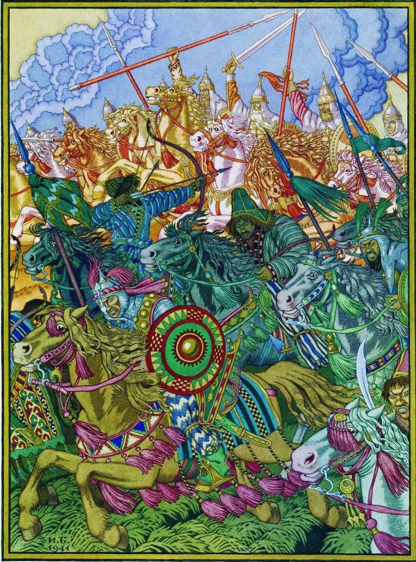 Ivan Bilibin. The expulsion of Khan Batyga. Illustration for the epic Изгнание хана Батыги Эскиз иллюстрации к сборнику былин для книги Н.В. Водовозова «Слово о стольном Киеве и о русских богатырях»